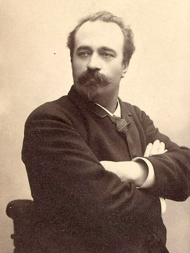 Gustaf Arthur Ossian Limborg (1848-1908)